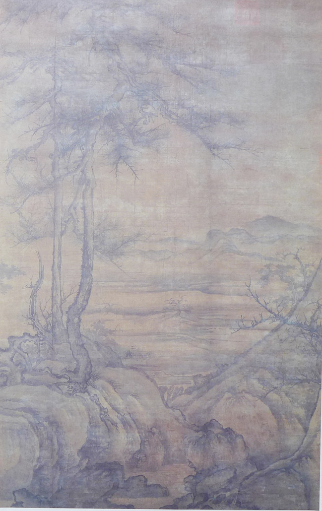 Pines in landscape Ink on Silk, 205x126cm, attributed to Li Cheng (c. 919 - c. 967 AD), Chokaido Museum, Mie, Japan